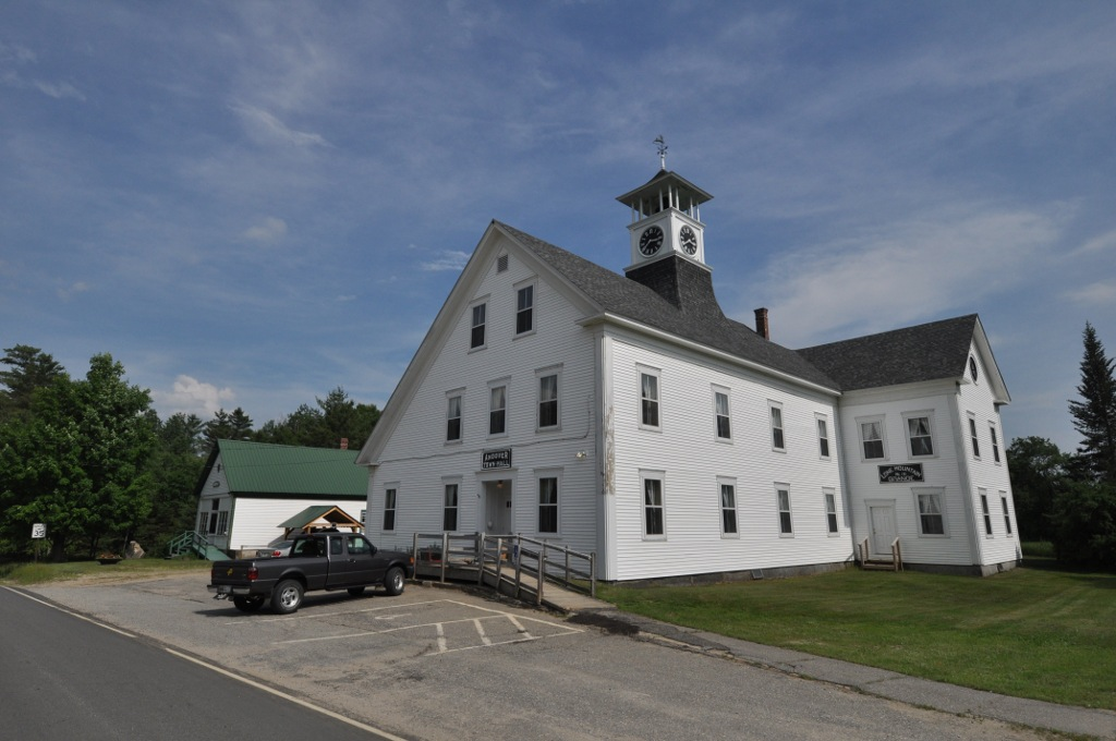 Town Hall, Andover, Maine.